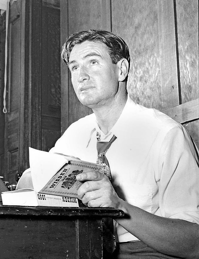 Australian cricketer Keith Miller reads a copy of Wisden on 8 January 1951 SMH SPORT Picture by STAFF